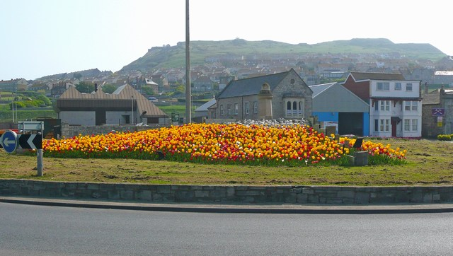 Tulip Time at Chiswell Visitors to Portland are greeted by a huge bank of tulips during the springtime, as they enter Chiswell from the causeway.